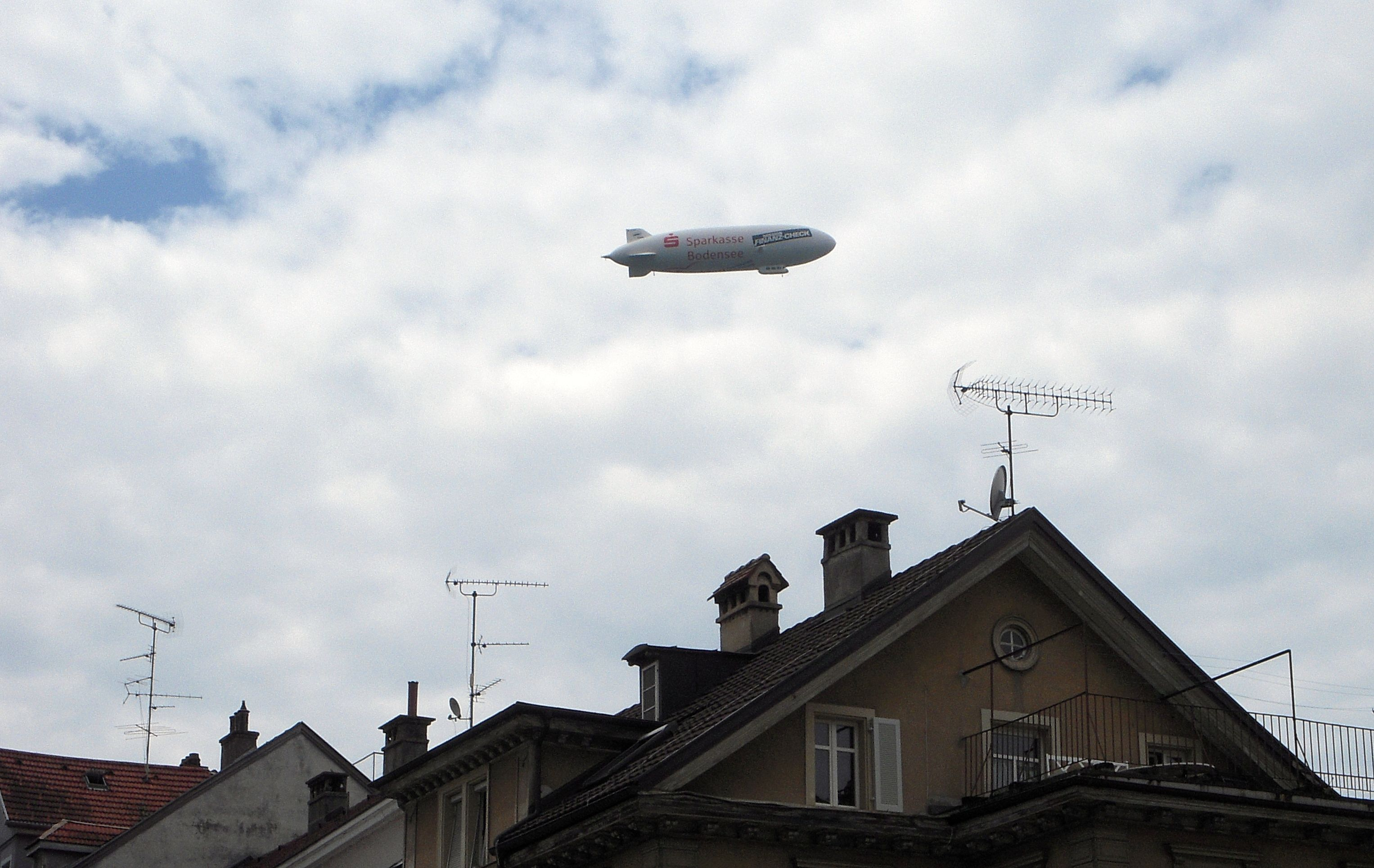 Airship over Bregenz in Austria. June 20, 2009.